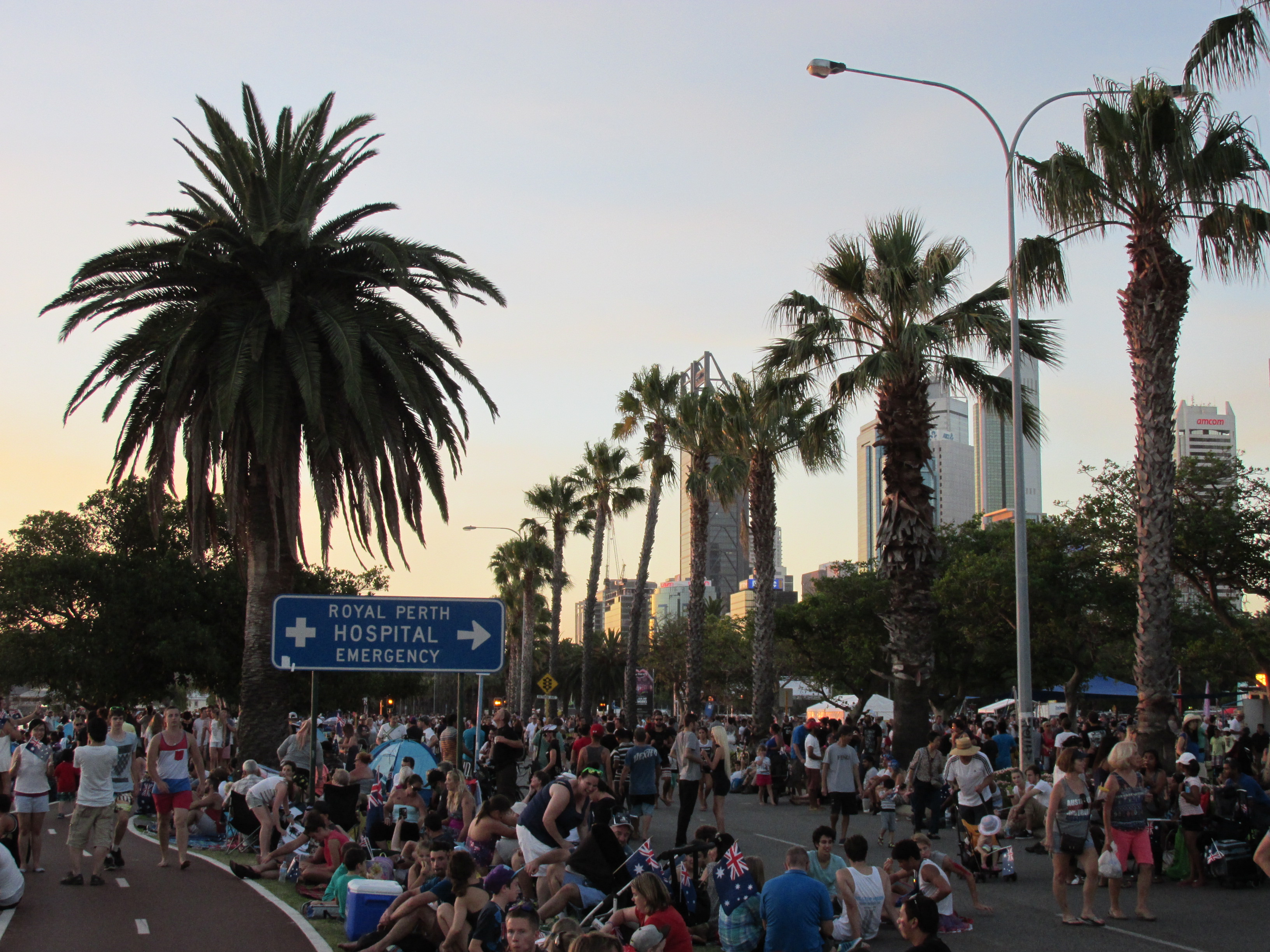 Crowds on Riverside Drive for the 2015 Australia Day celebrations in Perth, Western Australia